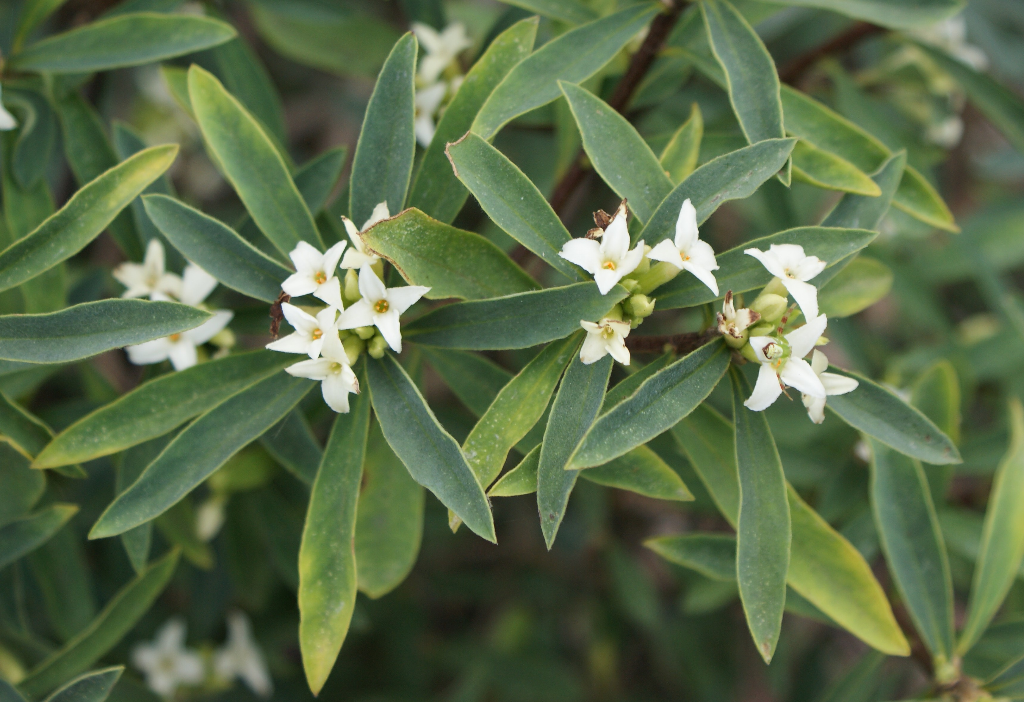 Daphne alpina, Botanical Garden in Wroclaw, Poland